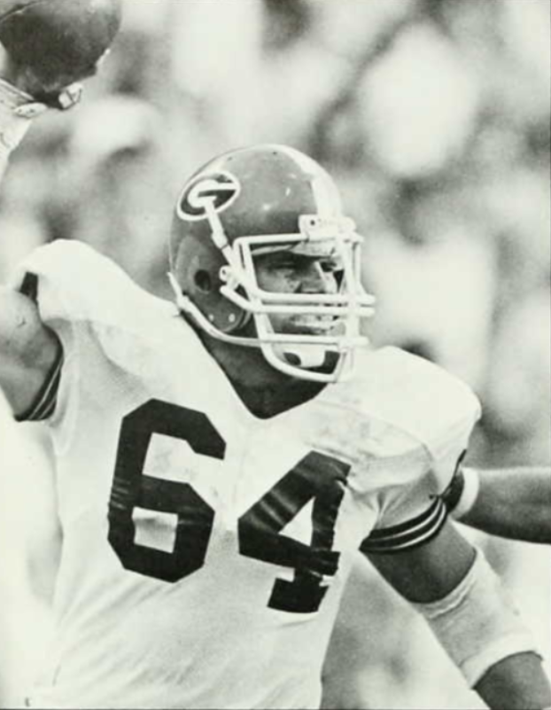 Photograph of Peter Anderson